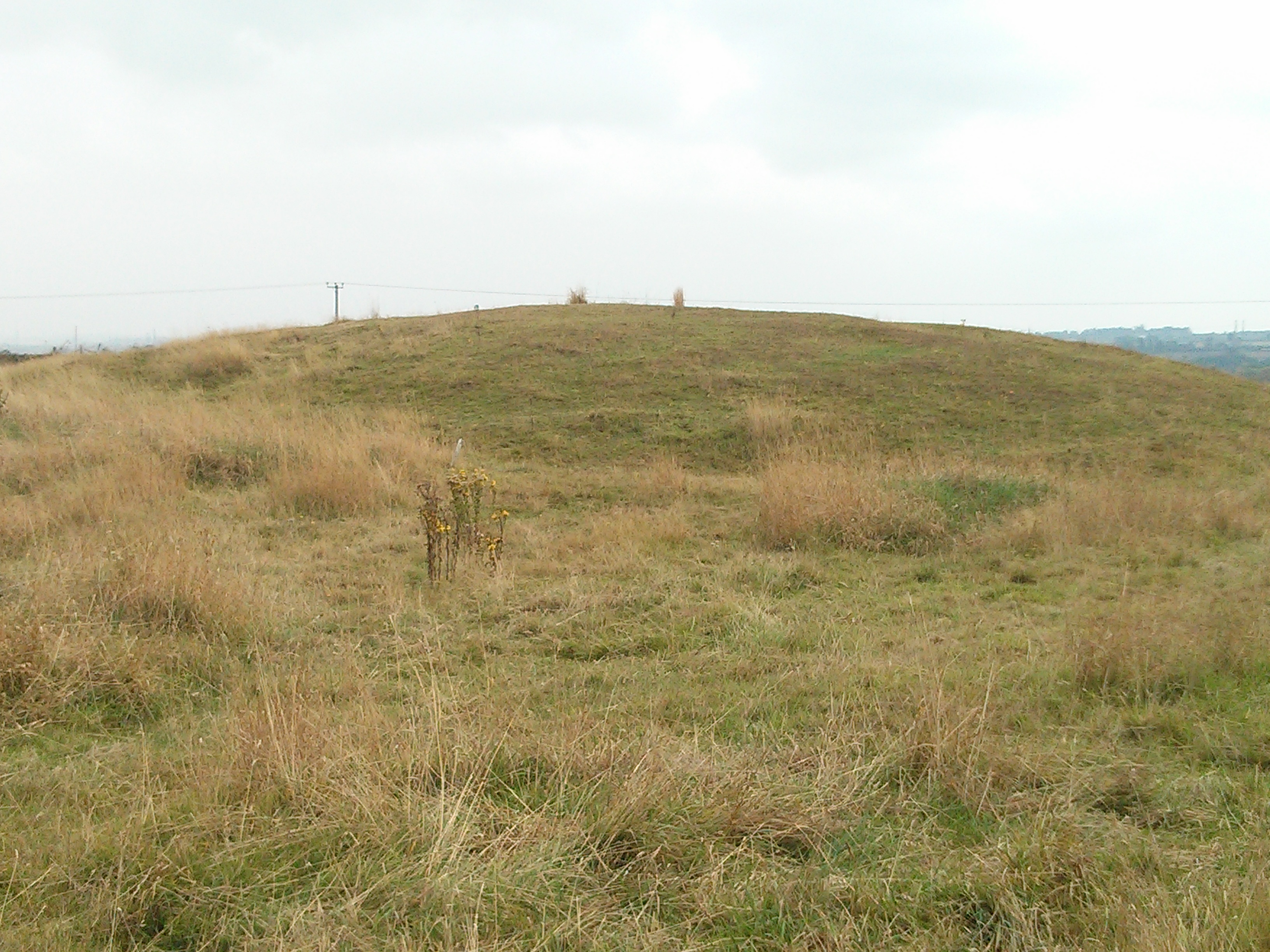 Swarkestone Lows round barrow cemetery and part of an aggregate field system 300m north west of The Lowes Farm. View of the barrow. Wikidata has entry Q17664876 with data related to this monument.